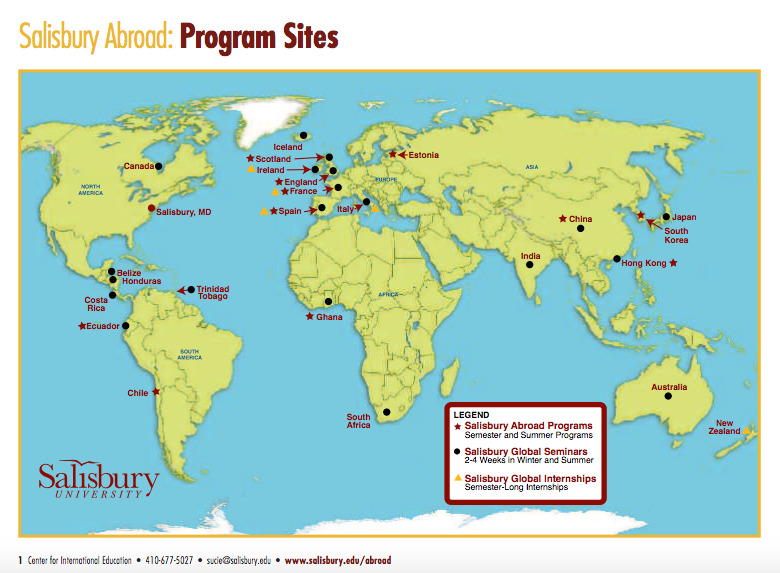 Location sites of Salisbury Abroad Programs, Salisbury Global Seminars, and Salisbury Global Internships.